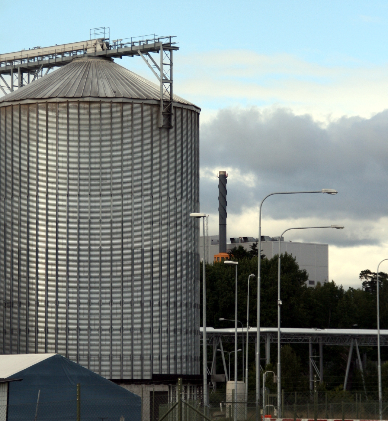 Example of Industrial Symbiosis where waste heat in the form of steam is sent via pipeline to an ethanol plant that uses the heat as part of its production process.